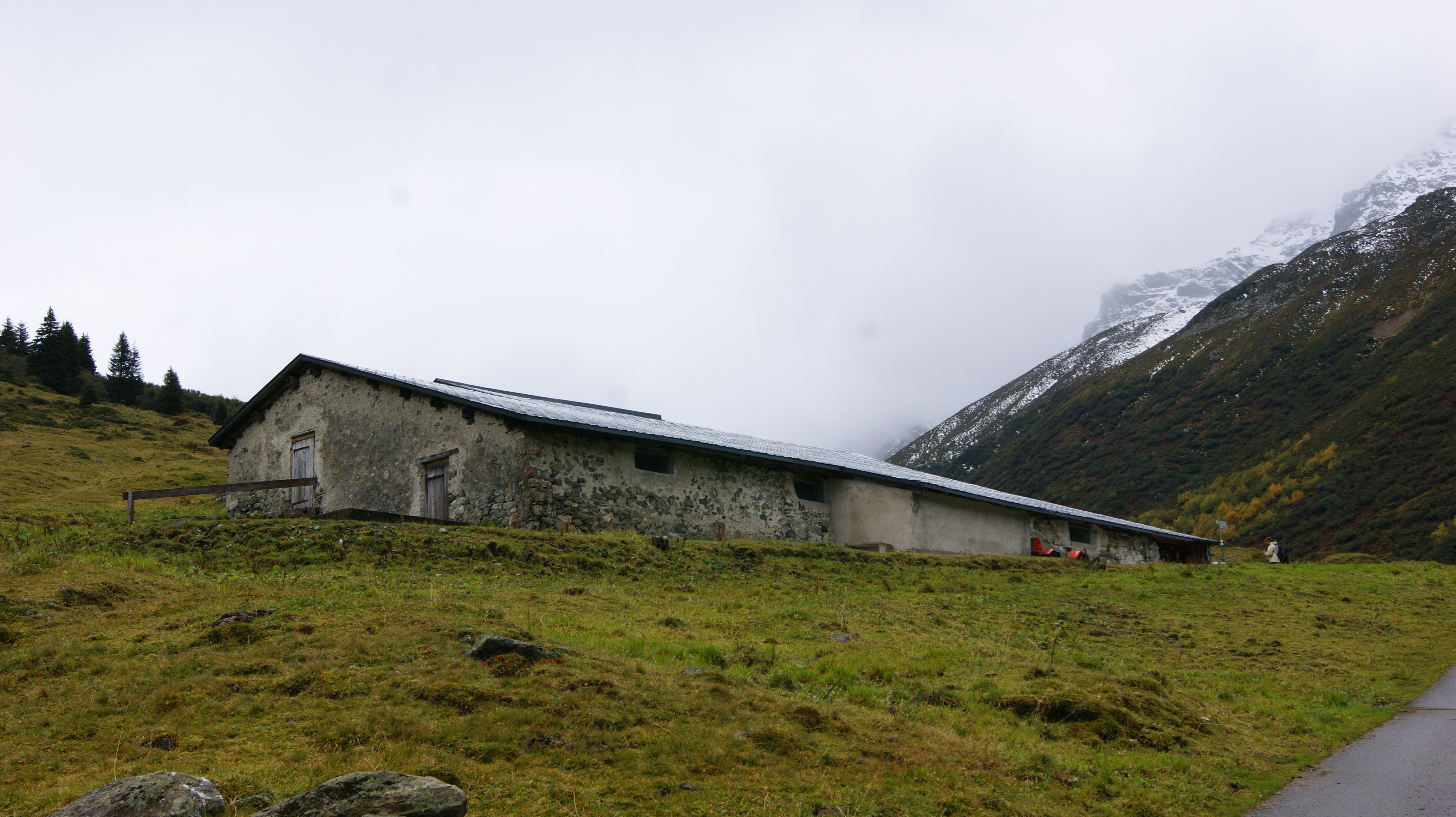 Lower Valzifenzalpe (alp) in the Valzifenztal in Gargellen (Vorarlberg, Austria). Dieses Bild wurde anlässlich des österreichischen Tags des Denkmals 2017 in Vorarlberg eingereicht.